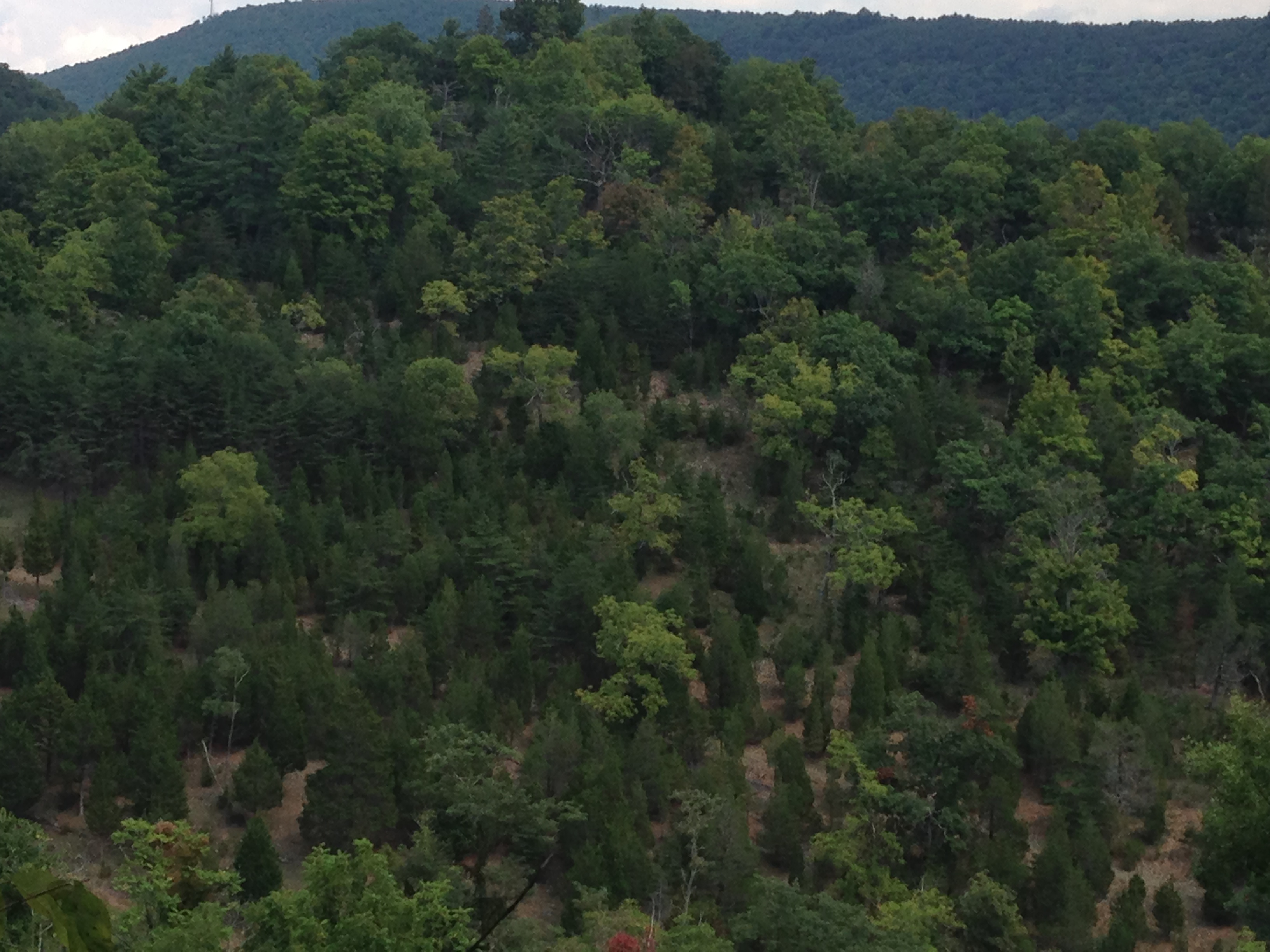 Area of juniper barrens on a spur of North Fork Mountain in Smoke Hole gorge, West Virginia, USA.